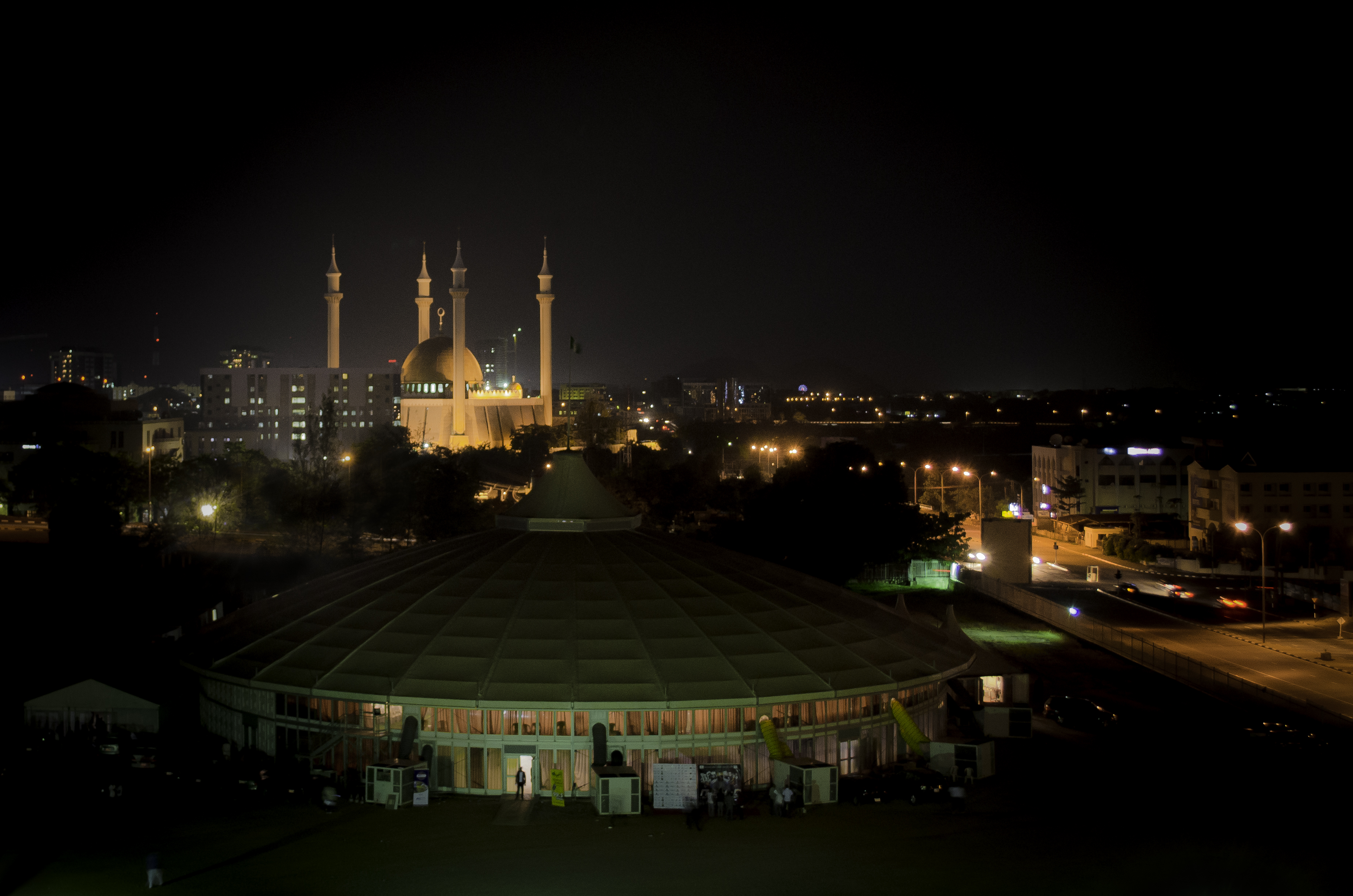 night view of Abuja This is an image of Cultural Fashion or Adornment from Nigeria